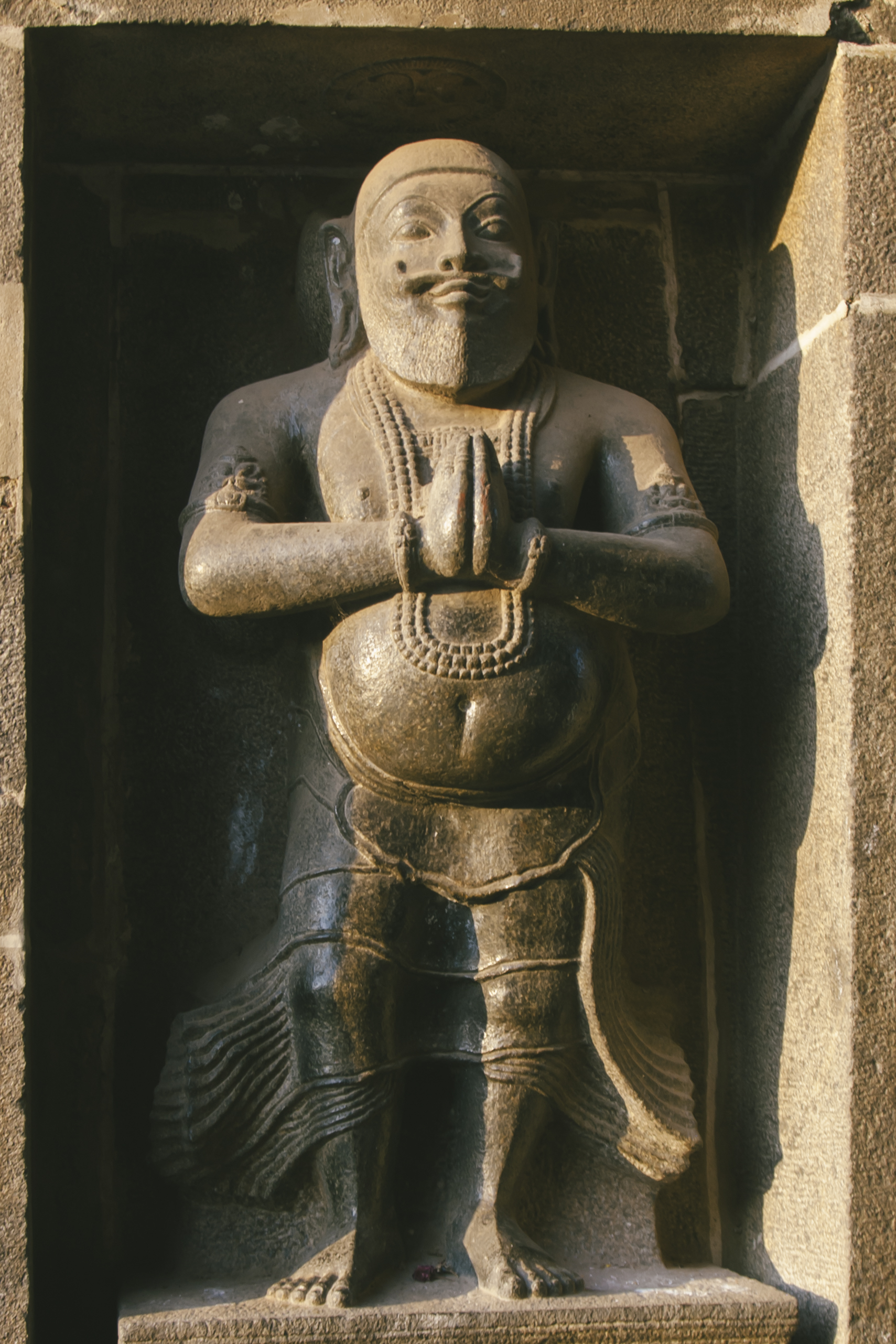 Sculpture in a wall at Nataraja Temple in Chidambaram, Tamil Nadu